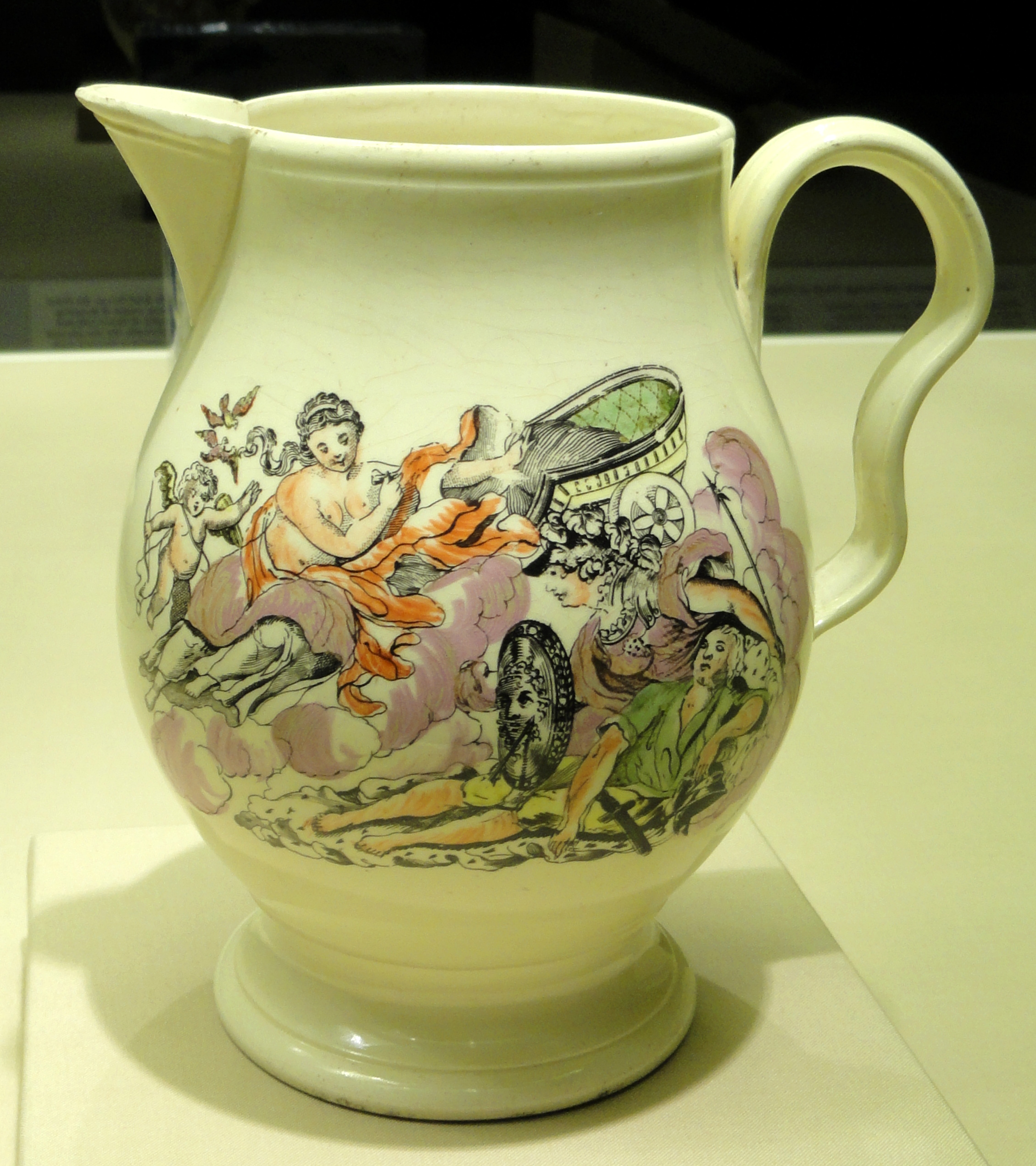 Exhibit in the Nelson-Atkins Museum of Art, Kansas City, Missouri, USA. ; I took this photograph and release it into the public domain.